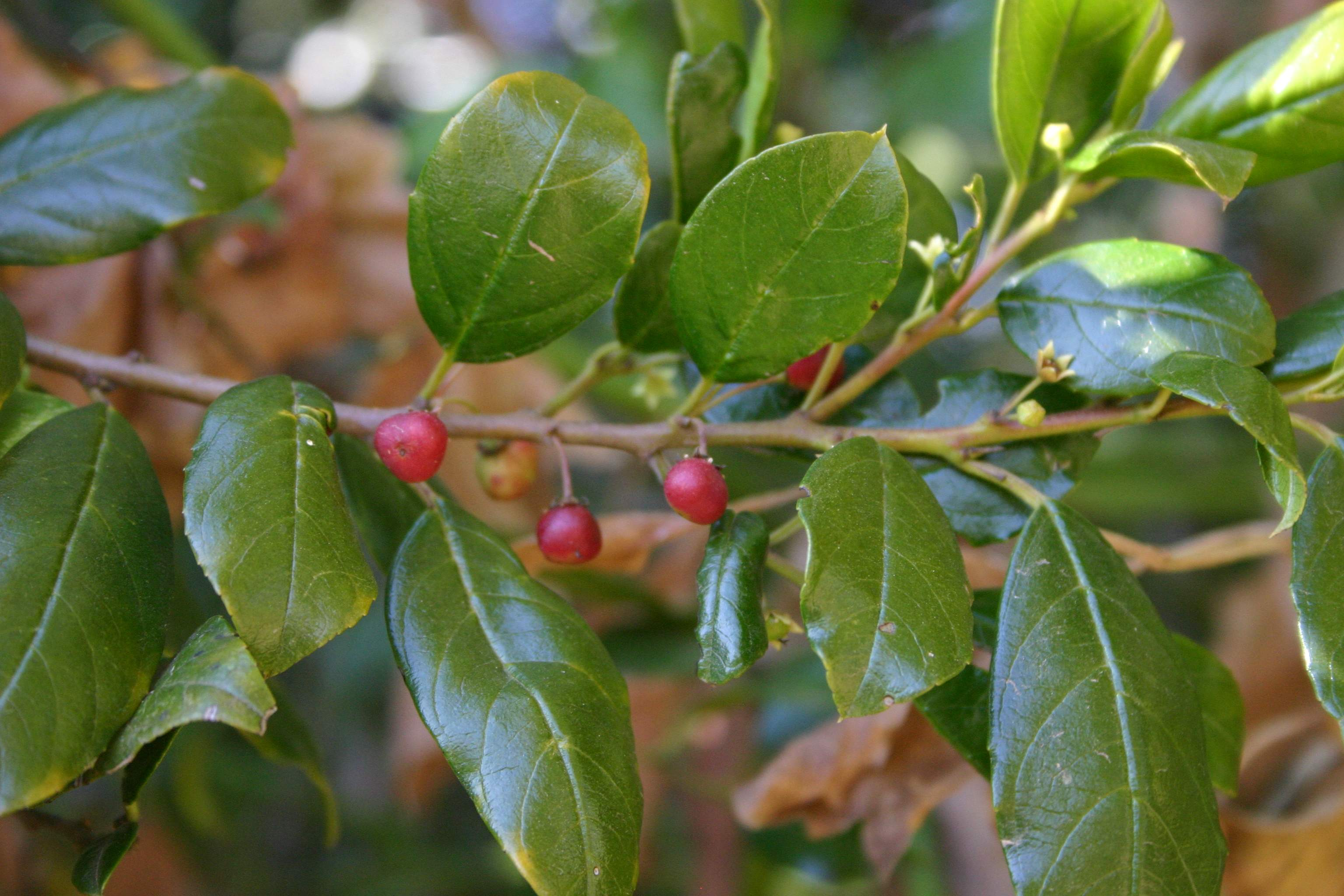 Ruimsig Botanical Gardens, Johannesburg